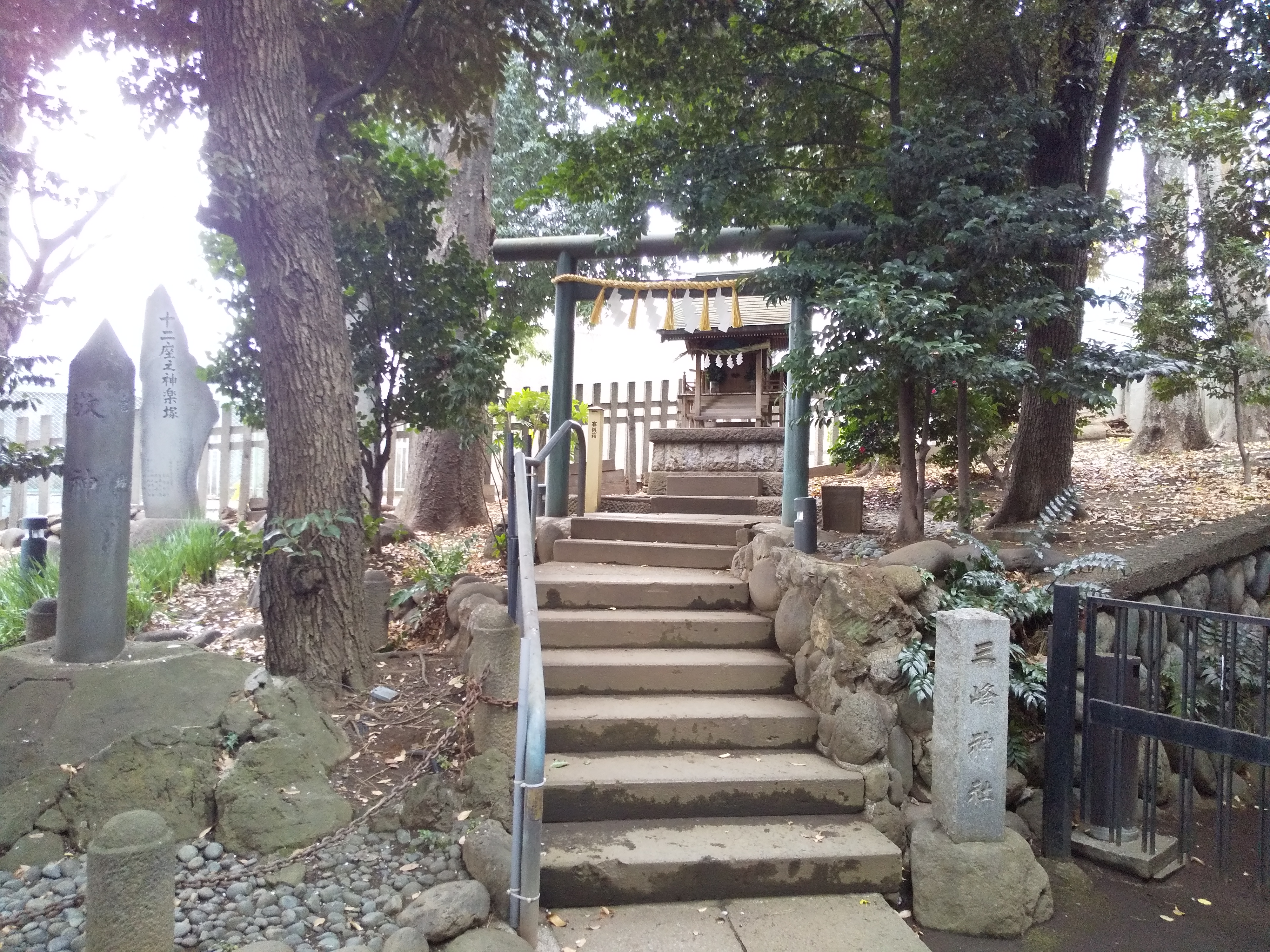 境内社 三峯神社